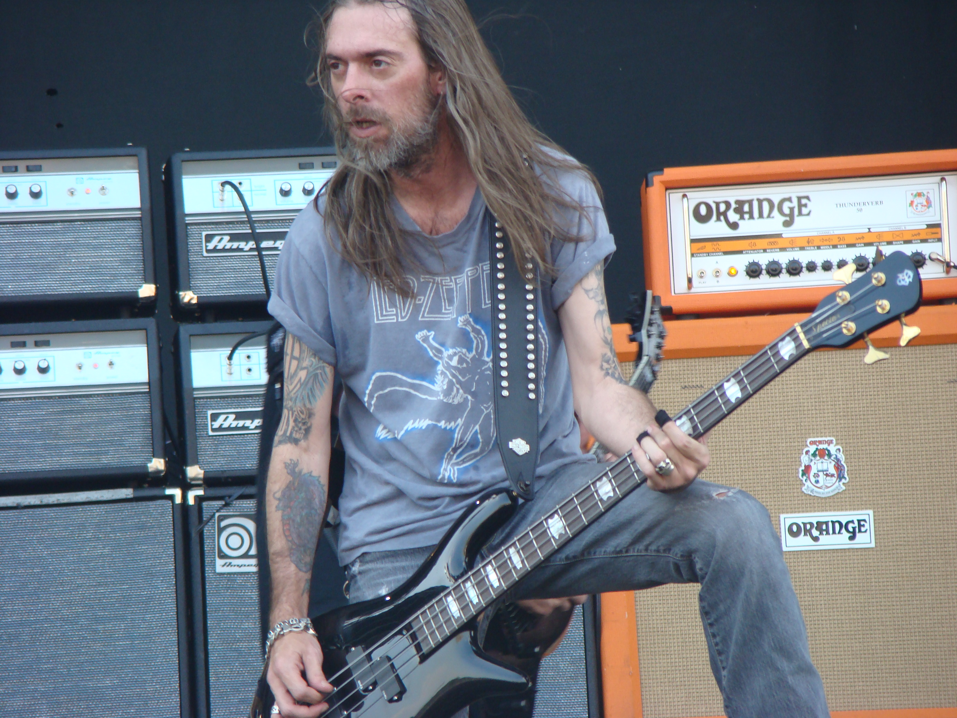 Down´s bassist Rex Brown playing live at Gods of Metal 2009.